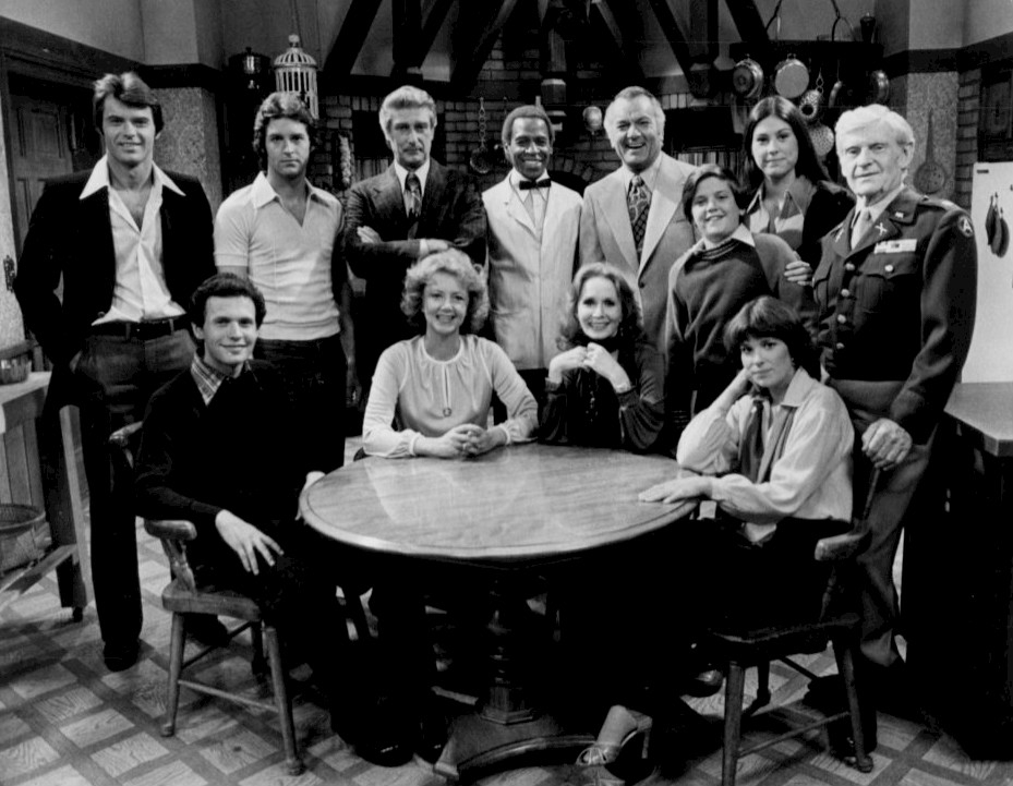 Photo of the entire cast of the television program Soap at its premiere. Standing, from left:Robert Urich (Peter Campbell), Ted Wass (Danny Dallas), Richard Mulligan (Bert Campbell), Robert Guillaume (Benson), Robert Mandan (Chester Tate), Jimmy Baio (Billy Tate), Diana Canova (Corinne Tate), Arthur Peterson, Jr. (the Major, a Tate family member). Seated, from left:Billy Crystal (Jodie Dallas), Cathryn Damon (Mary Campbell), Katherine Helmond (Jessica Tate), Jennifer Salt (Eunice Tate).